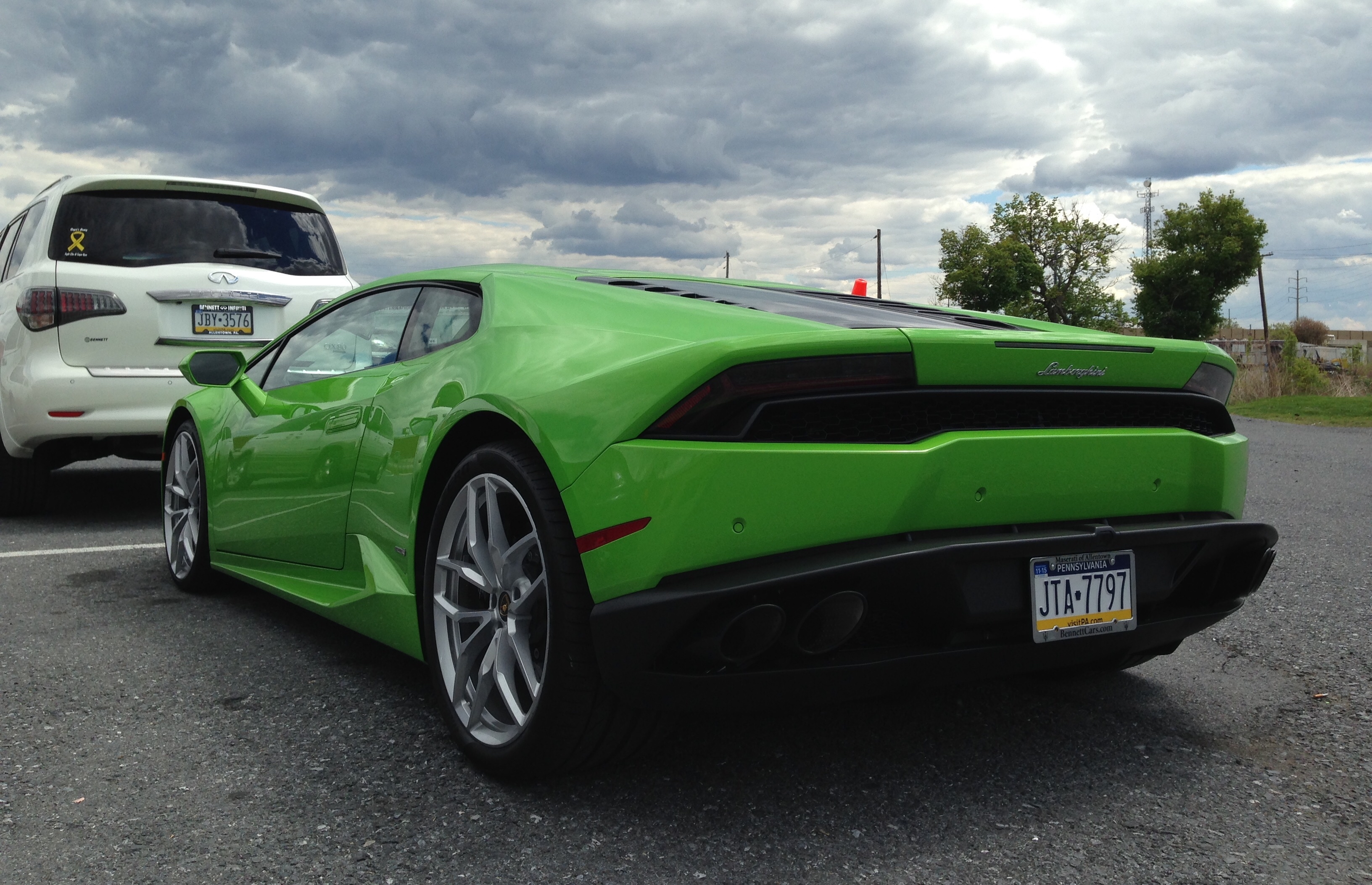 Lamborghini Huracan LP610-4